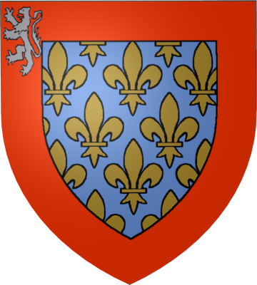 Maine (province of France): Coat of Arms in 3D